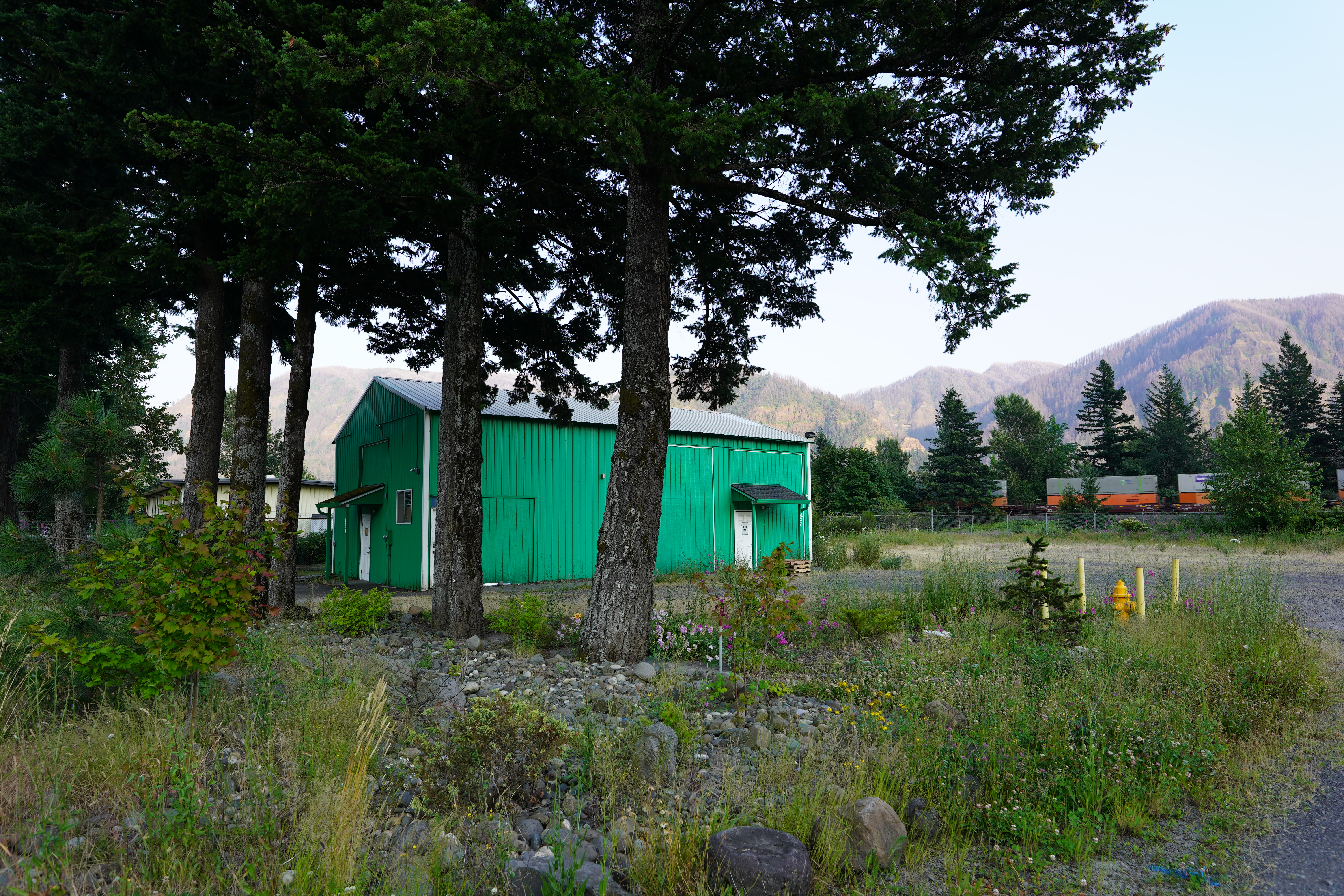 A building located at 420 Evergreen Drive, North Bonneville, Washington, USA. According to this archived page of , the building was the location of The Cannabis Corner, a cannabis dispensary. Photograph taken on 2020-07-03T02:44Z